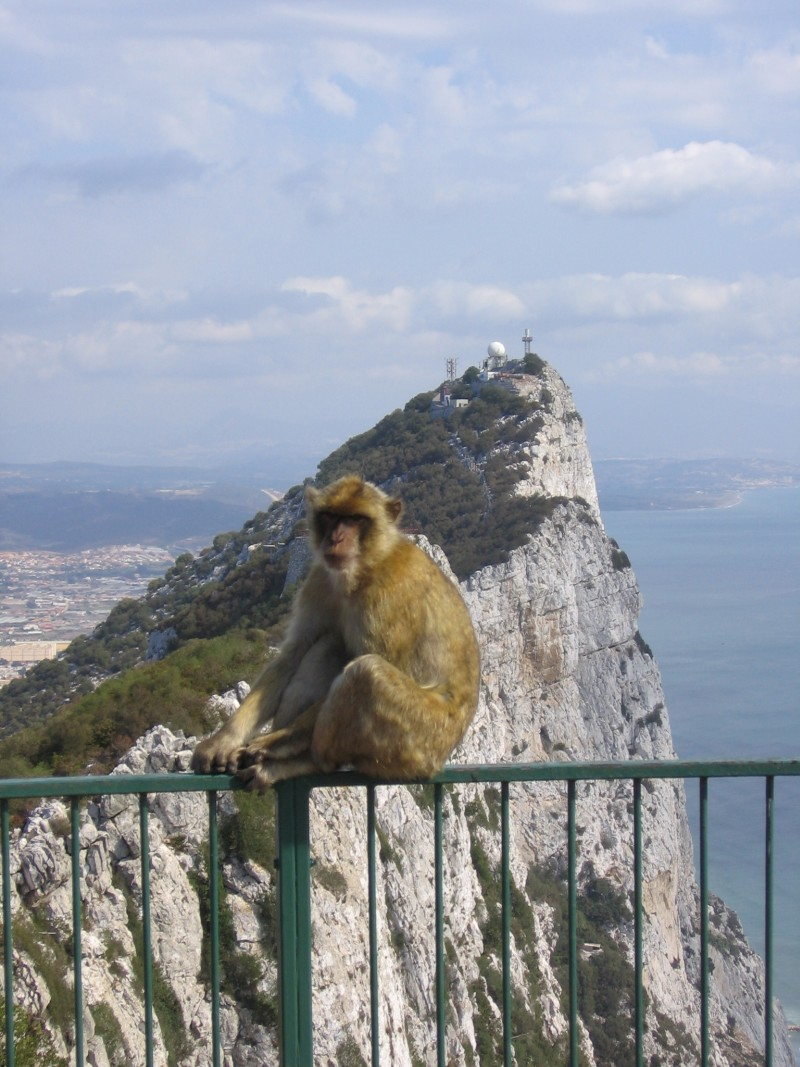 Gibraltar Rock & Barbary Ape